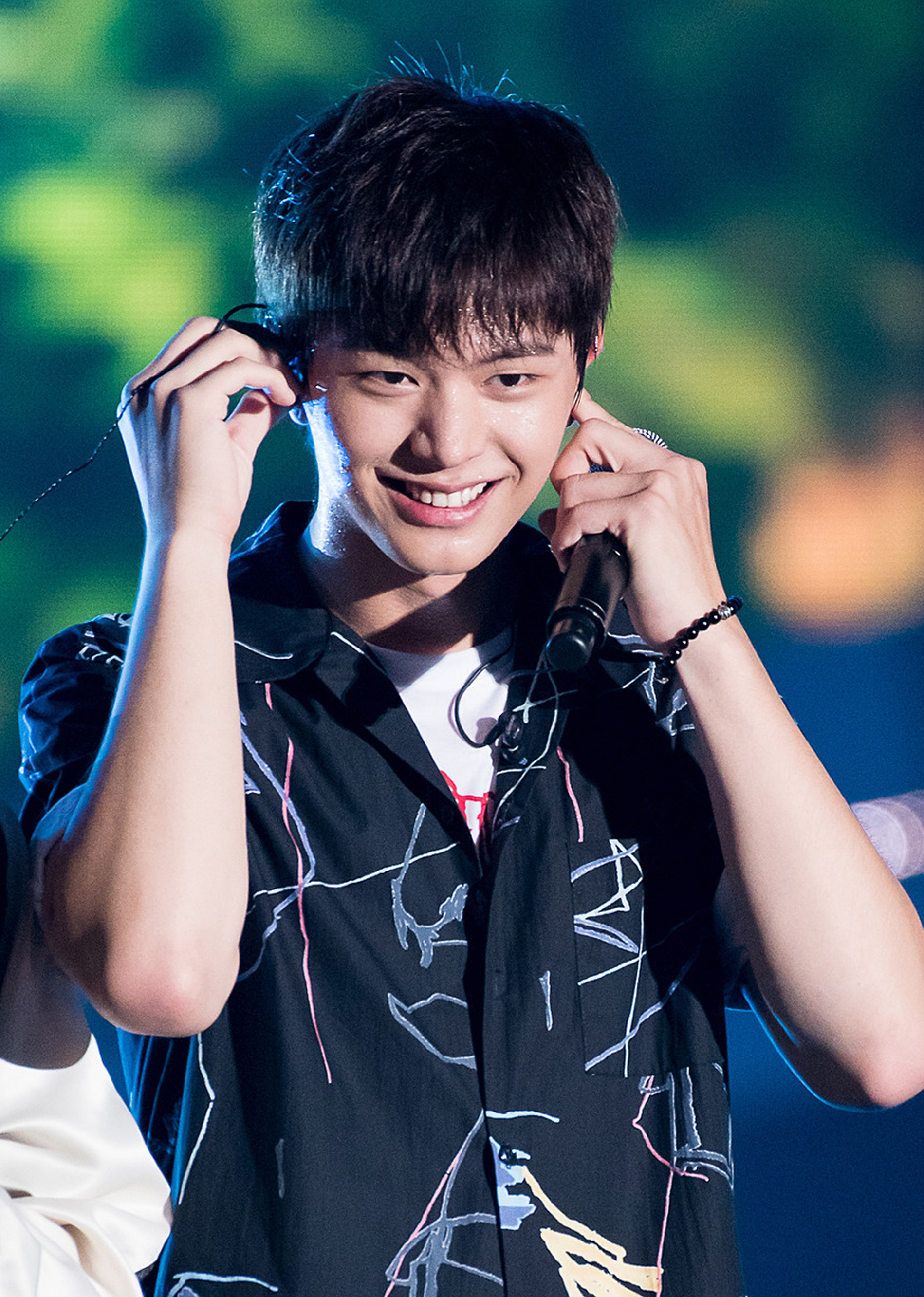 Yook Sung-jae at WFMF concert on September 11, 2016.